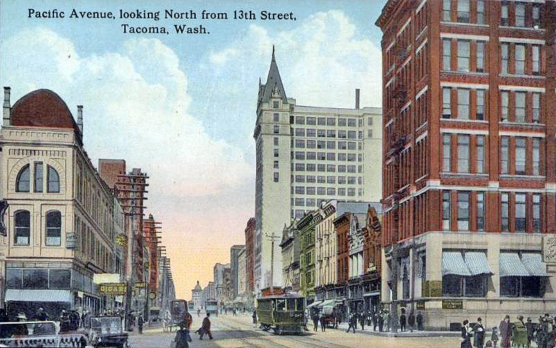 Postcard picture of downtown Tacoma, Washington, showing Pacific Avenue, looking north from 13th Street.